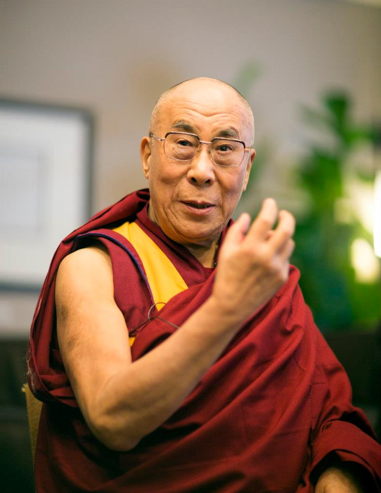 Tenzin Gyatso, 14th Dalai Lama in Boston